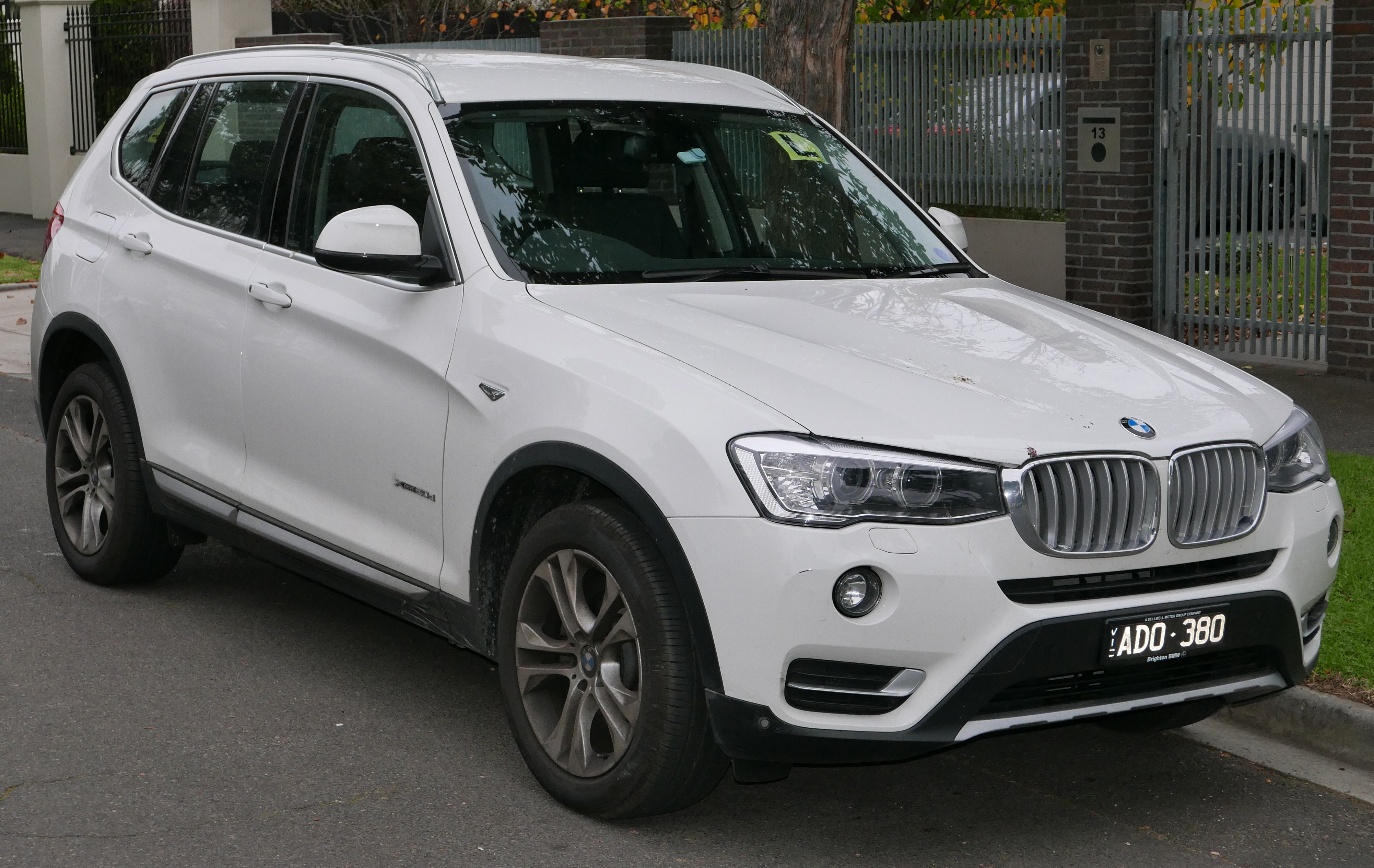 2015 BMW X3 (F25 LCI) xDrive20d wagon. Photographed in Brighton, Victoria, Australia. Vehicle registration enquiry resultsJurisdictionVictoriaRegistrationADO380Chassis codeWBAWZ520700M85065Engine code74339048Compliance date2015-01Year of manufacture2015